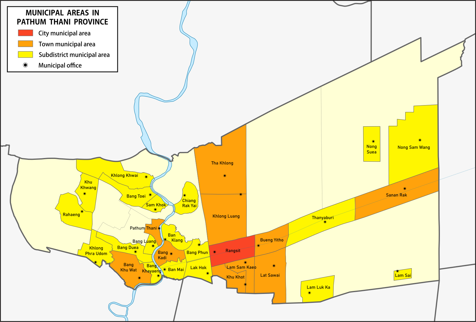 Map of municipal areas in Pathum Thani Province: City municipalities (thetsaban nakhon) Town municipalities (thetsaban mueang) Subdistrict municipalities (thetsaban tambon)